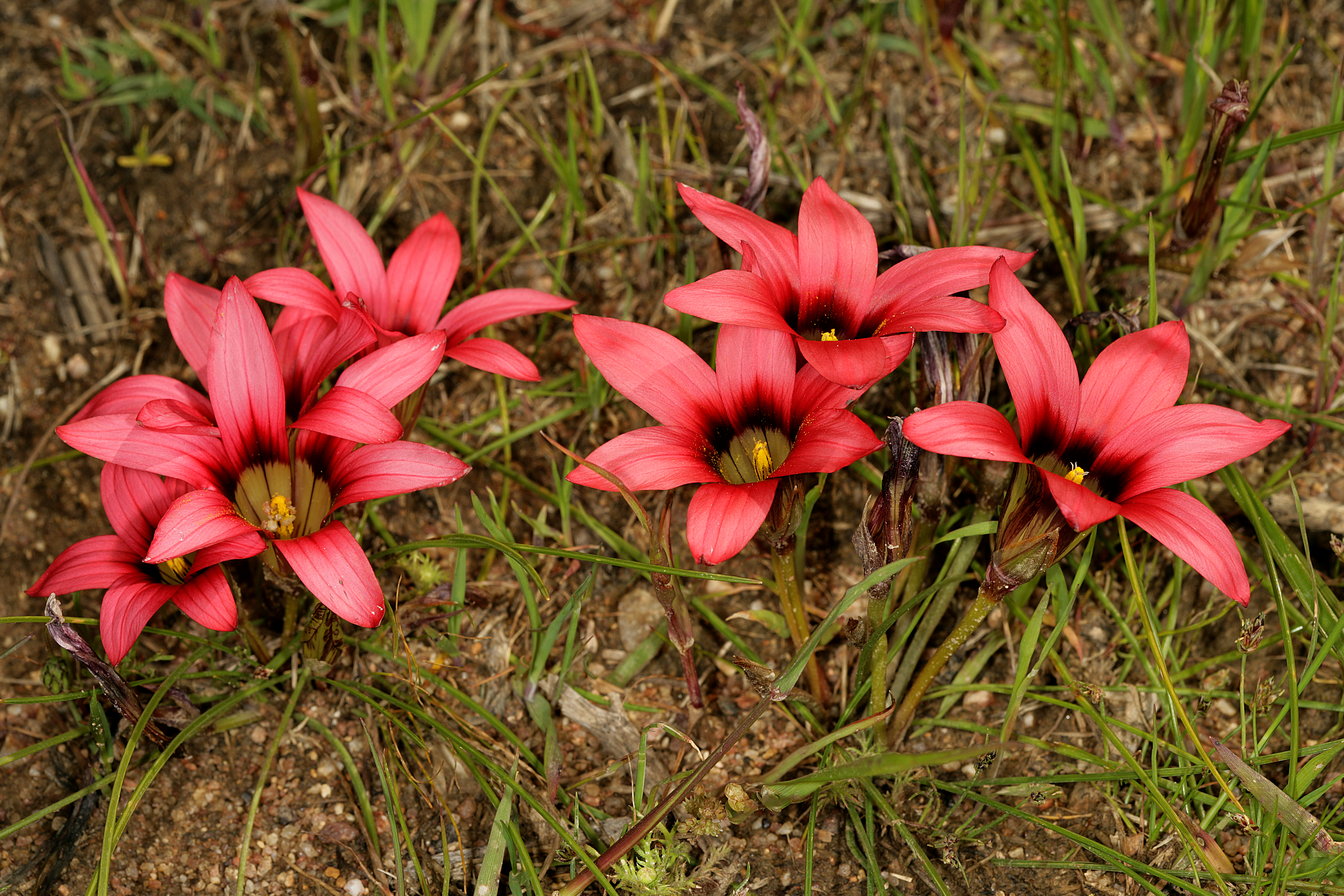 Romulea eximia, plants in flower; Darling Renosterveld Reserve, Darling, Western Cape, South Africa